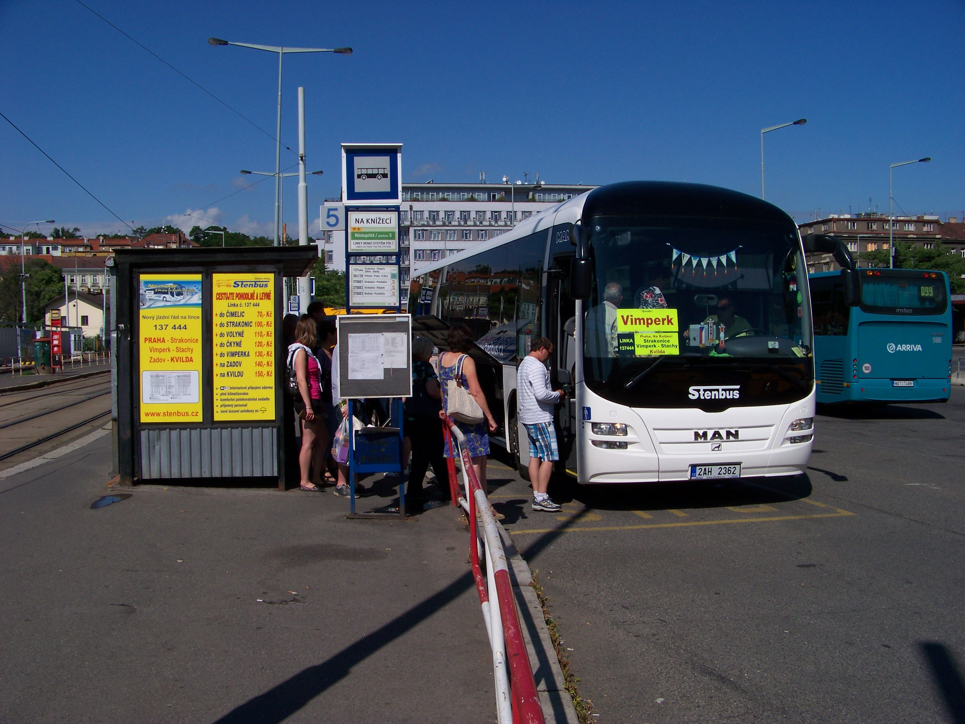 Prague-Smíchov. Na Knížecí station, a bus of Stenbus.